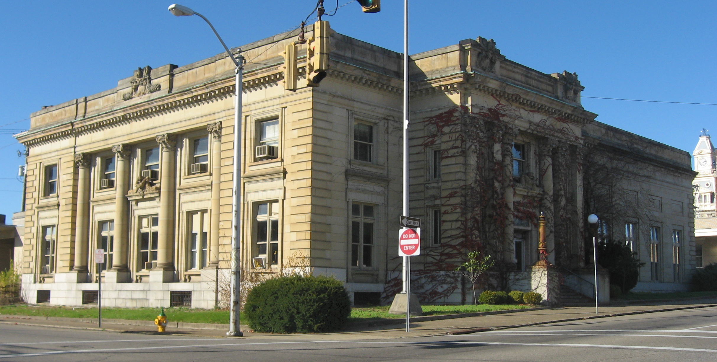 Front of the former Zanesville post office and federal building, located at 65 S. Fifth Street in Zanesville, Ohio, United States. Built in 1904, it is listed on the National Register of Historic Places.